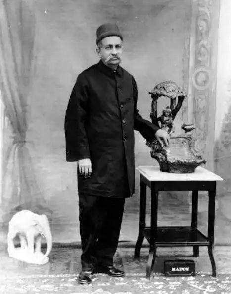 Indian theatre personlity J F Madan.